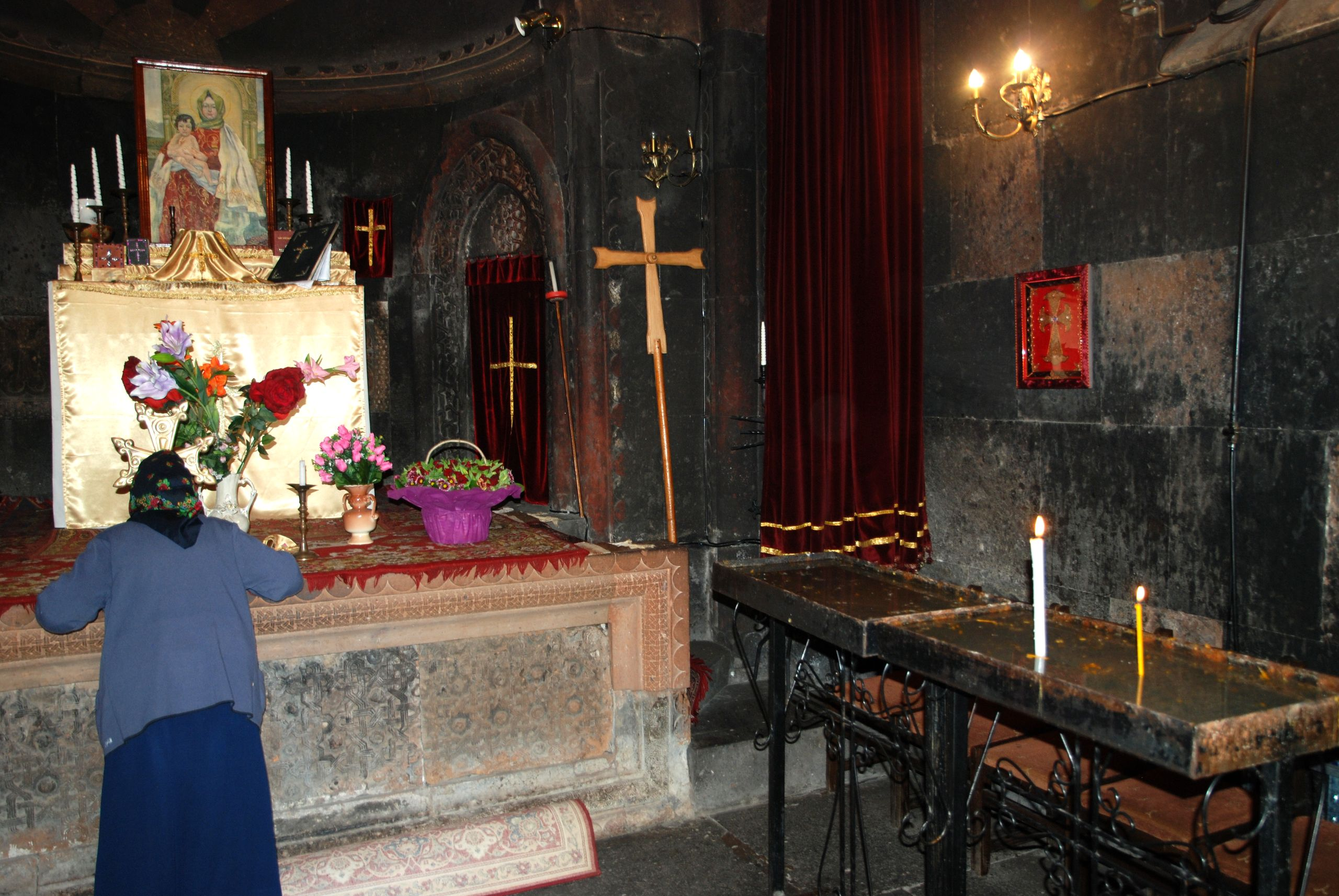 Yeghvard, Surp Astvatsatsin, altar